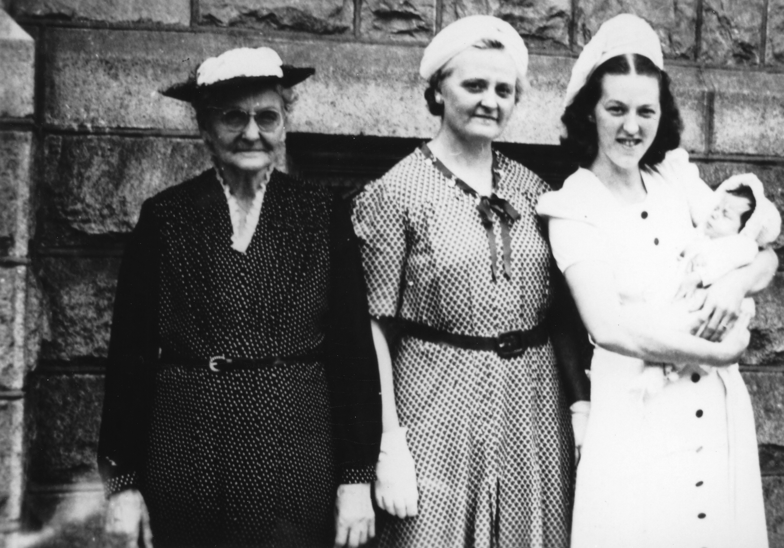 Title Four Generations of a Family Description Photo of four generations in a Caucasian family, three women and a baby girl. Topics/Categories People -- Family/Friends Type B&W, Photo Source National Cancer Institute